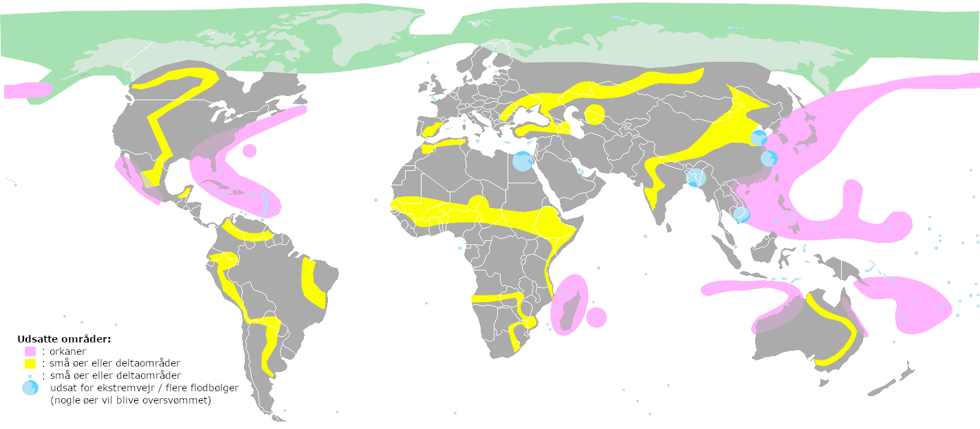 A schematic showing the regions where natural disasters will occur due to climate change (global warming). ===Text version of the map's key=== Areas exposed to: * Pink: hurricanes * Yellow: desertification or drought * Blue: small islands and deltas subjected to extreme weather or greater surf; some islands will be completely submerged ===Background=== The schematic was based on the Environmentally Induced Migration map from GRID Arendal. Although that map was deleted by GRID Arendal (see "Environmentally Induced Migration Map - Clarification" on the GRID Arendal site and this SPIEGEL ONLINE article and image caption) due to the fact that the number of refugees was incorrect. The map itself did not show the migration nor refugee estimates; it showed only the areas where natural disasters are likely to occur and hence the map remained accurate. A reason why the number of refugees wasn't correct (which doesn't affect the validity of the image) is that the degree to which people have been able to adapt in or near their home locale (that is, without crossing borders to officially become a refugee) couldn't be accurately predicted. For example, see "The Coming Storm: The people of Bangladesh have much to teach us about how a crowded planet can best adapt to rising sea levels." Since the small islands are difficult to see on the map, see this list of island nations which are in danger of being submerged within a few decades at online on the site (or its archive, if the site remains down).